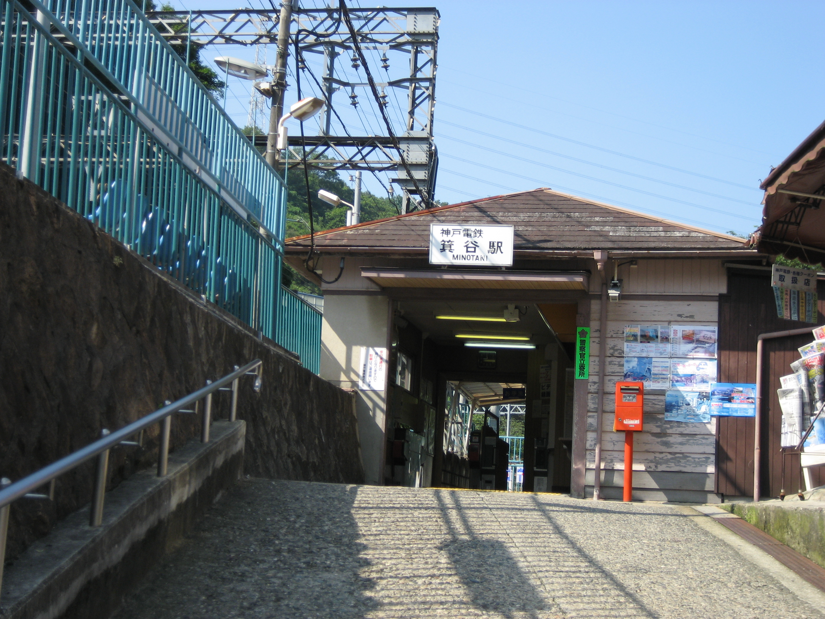 Kobe Electric Railway Minotani Station